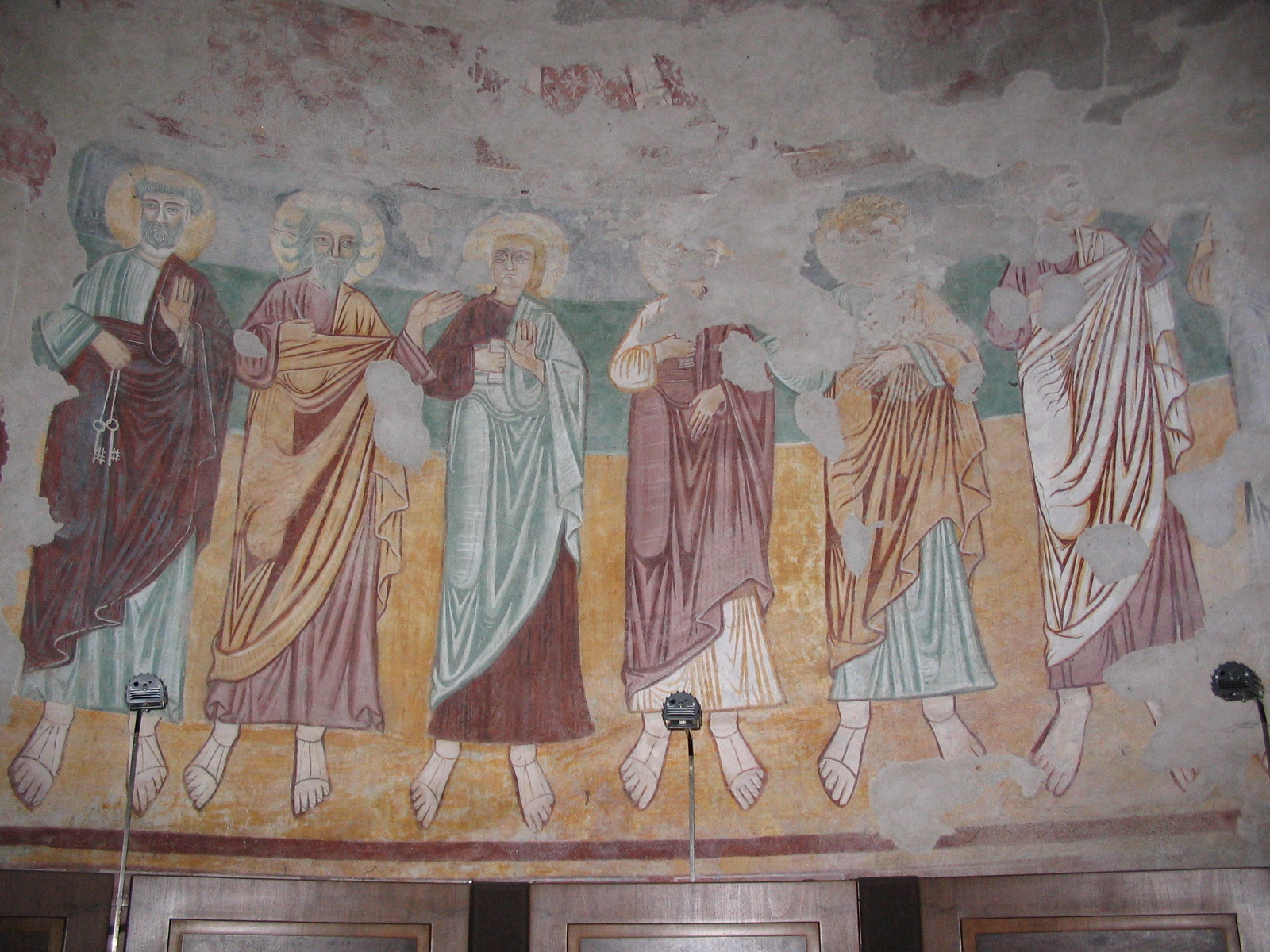 Priorato di Piona: detail of the frescos in the apse. Picture by: Giorces.